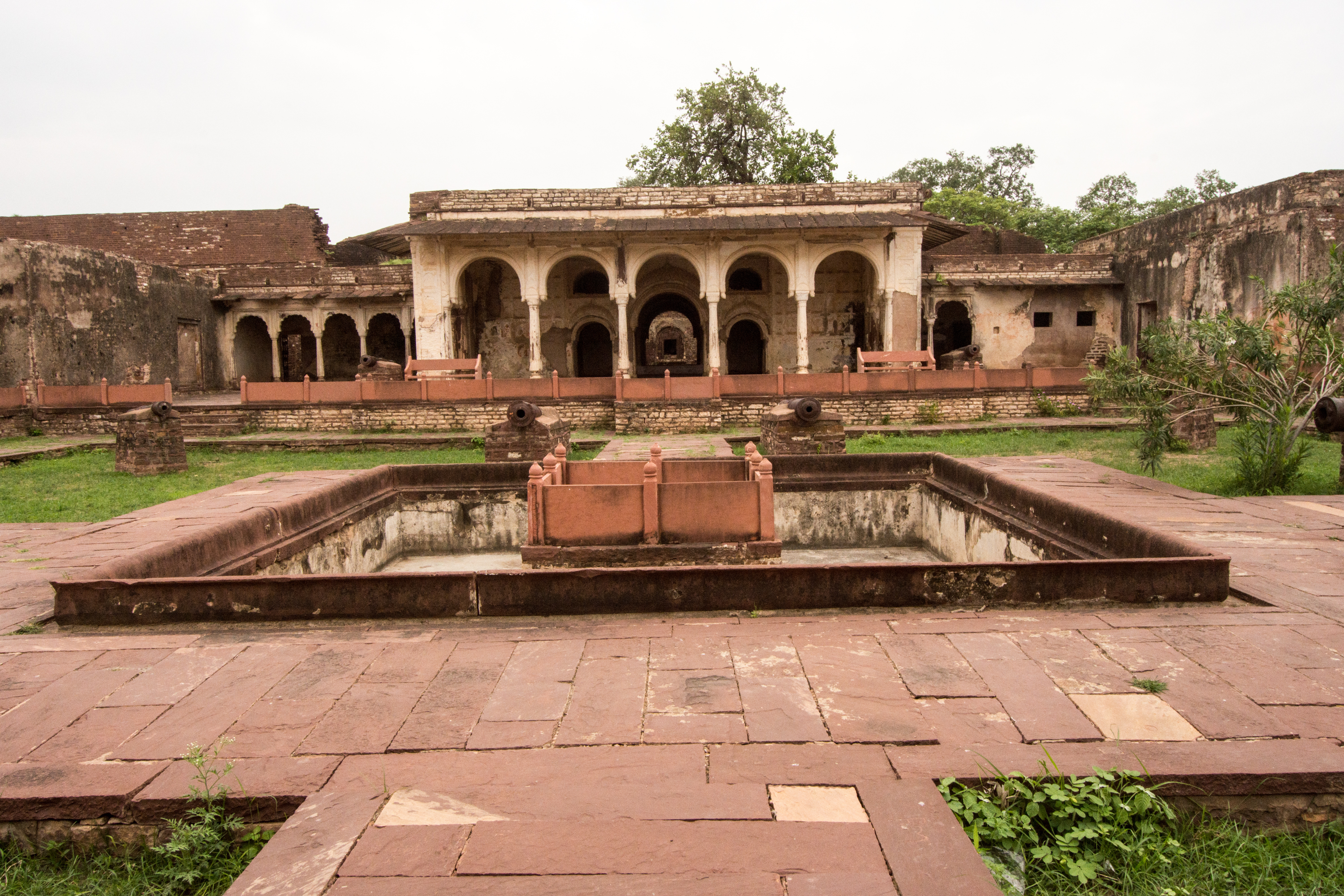 Narwar Fort and Memorial